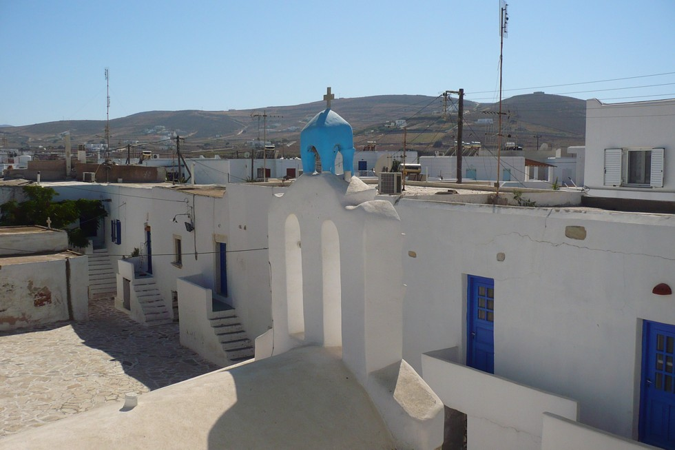 The apartment blocks of the Antiparos castle and the church of Jesus Christ.